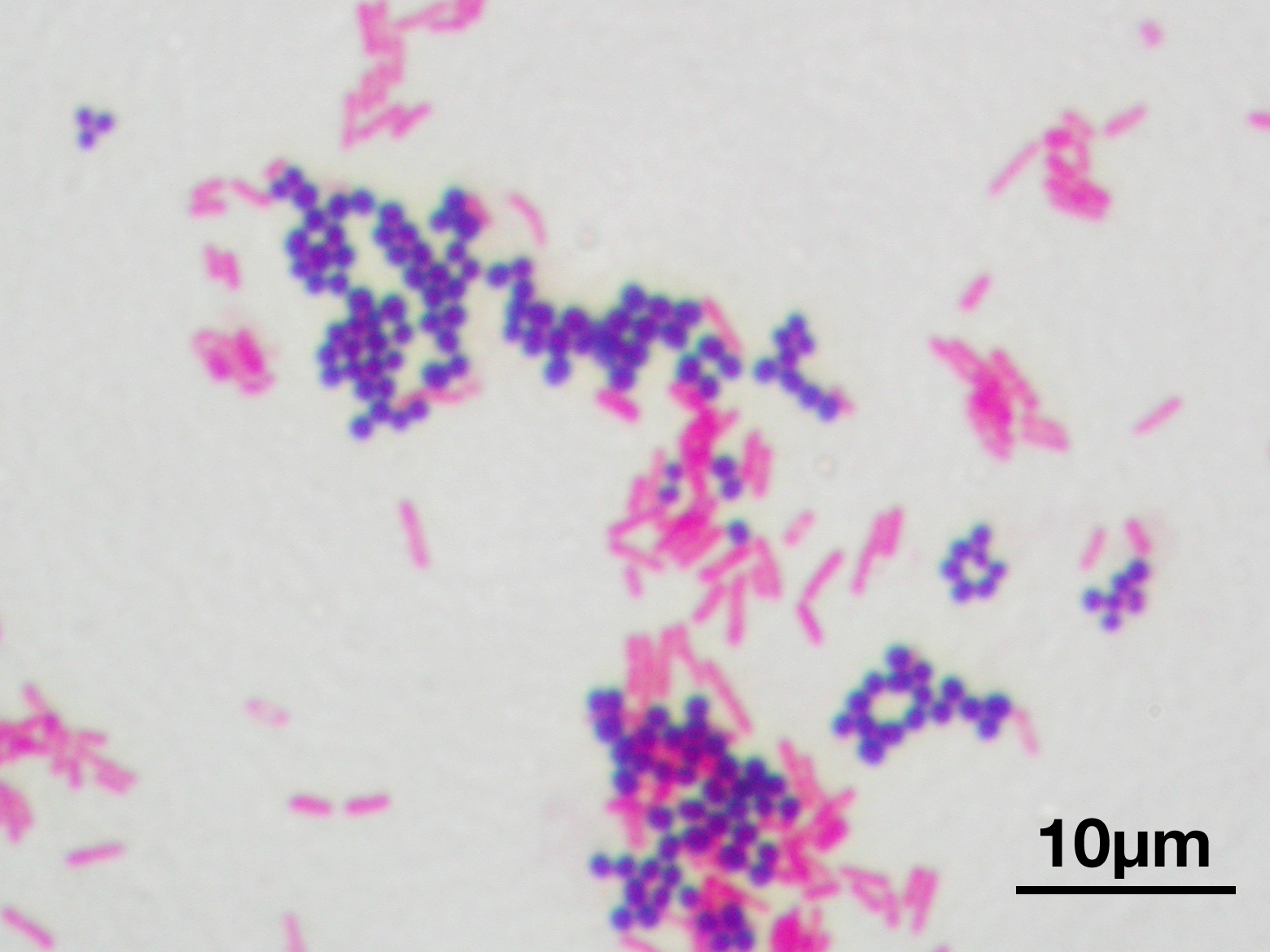 microscopic image of a Gram stain of mixed Gram-positive cocci (Staphylococcus aureus ATCC 25923, purple) and Gram-negative bacilli (Escherichia coli ATCC 11775, red). Magnification:1,000.